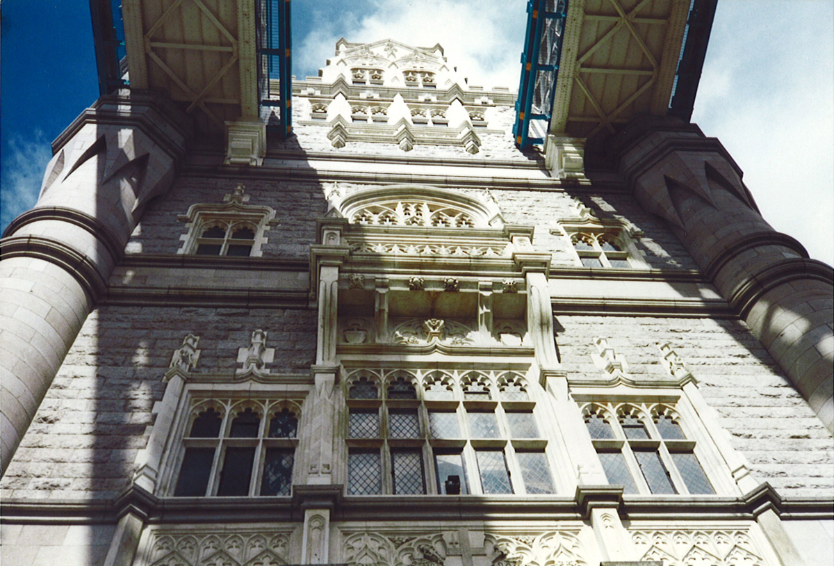 Oblique view of the Tower Bridge (north tower) from Tower Bridge Road, London, April 1994